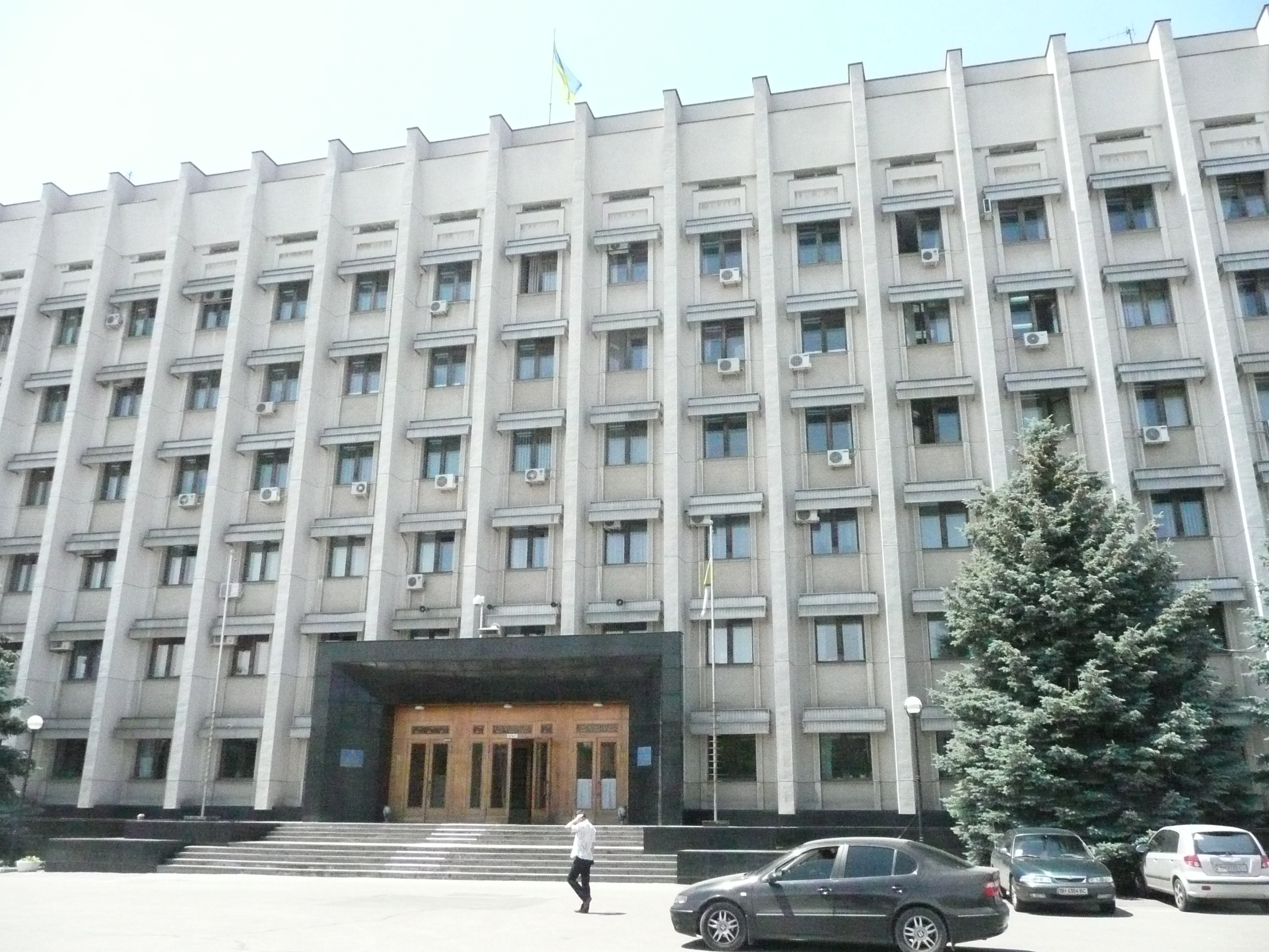 Administration of the Region Odessa